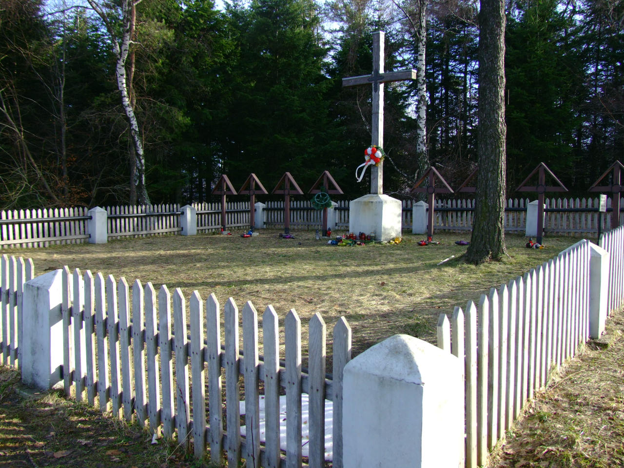 World War I Cemetery nr 359 in Jaworzna)